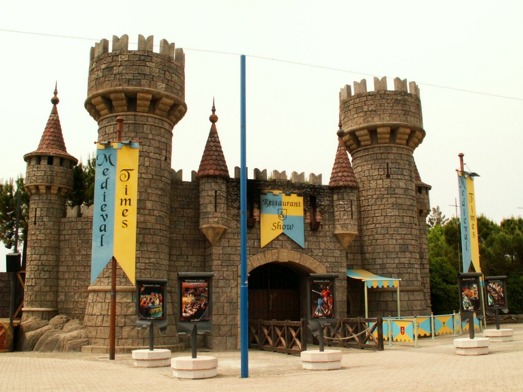 The "Medieval Times" attraction in the Italian Canevaworld amusement park.